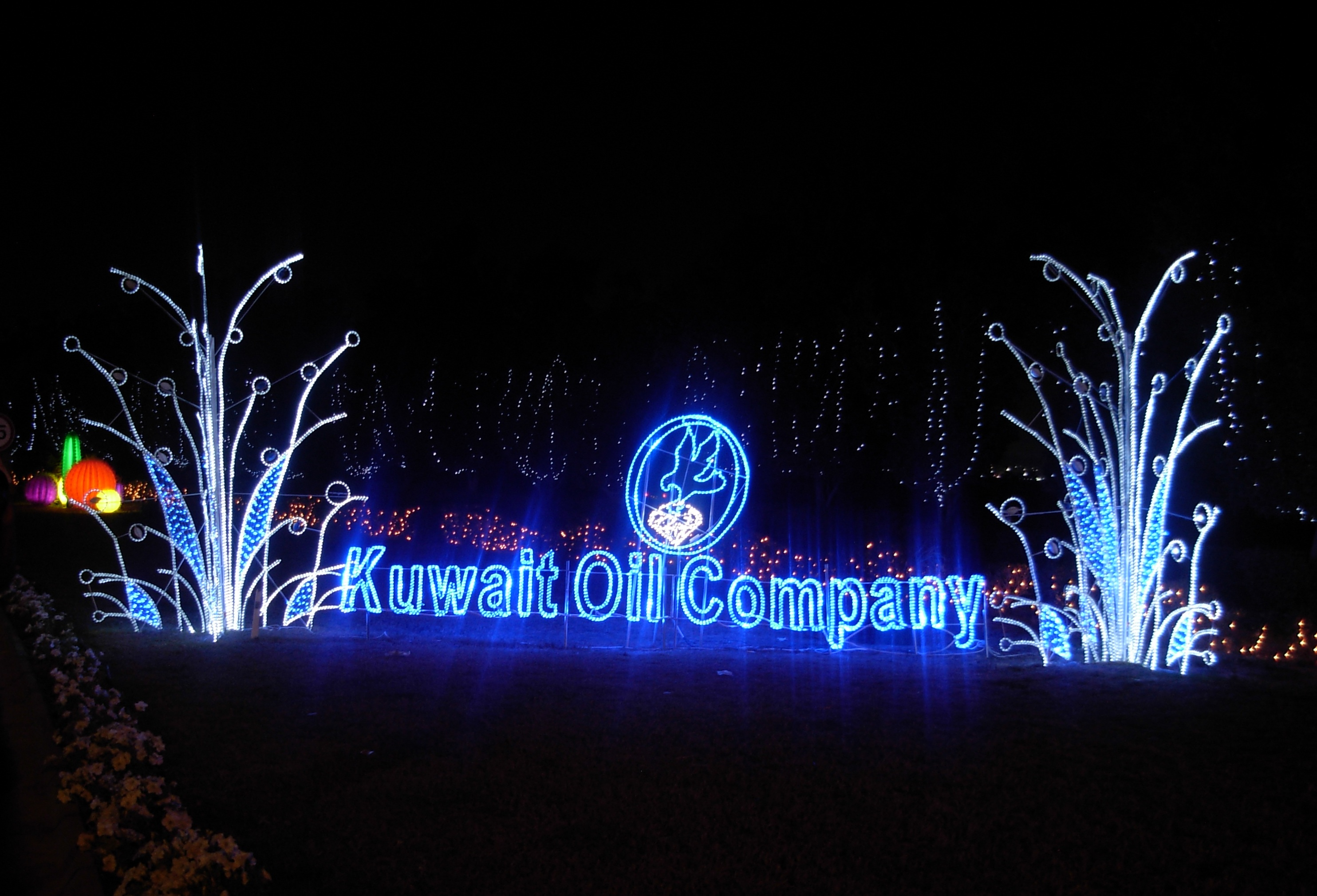 LED Illumination in Kuwait during the Hala February celebration 2011